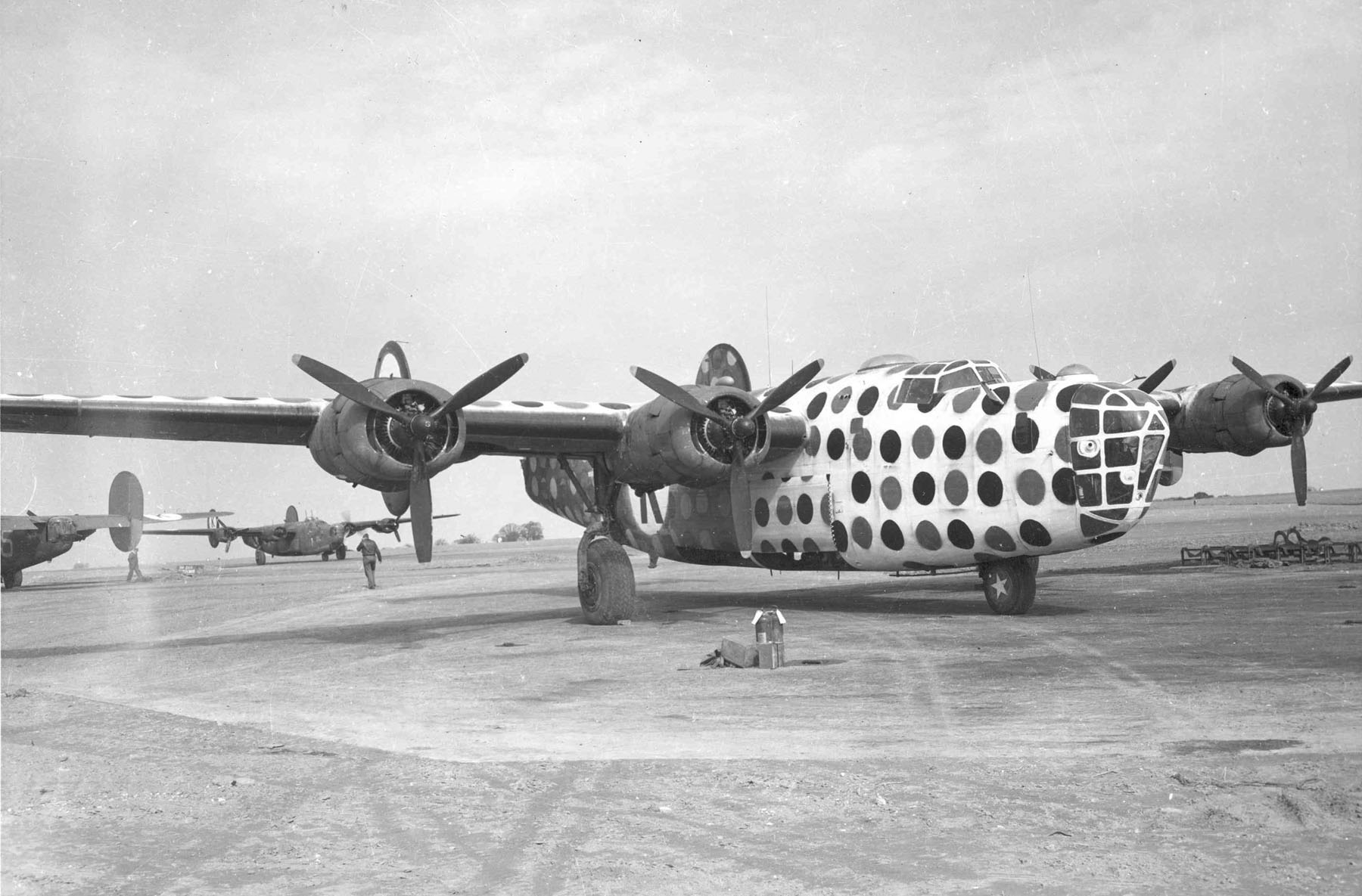 "First Sergeant" was a war-weary Consolidated B-24D used to assemble large formations. Once the formation was formed up, this aircraft returned to base